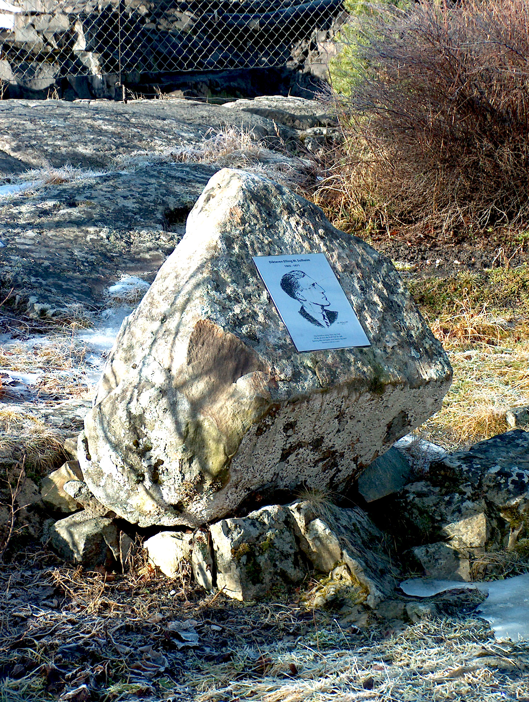 Elling M. Solheims minnestein i Nordre park, Hønefoss (The monumental stone of Elling M. Solheim, situated in Northern Park of Hønefoss, Norway)